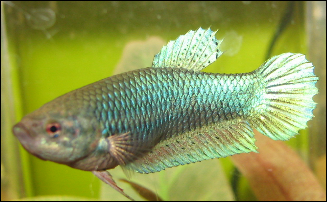 Siamese fighting fish (Betta splendens), probably a female